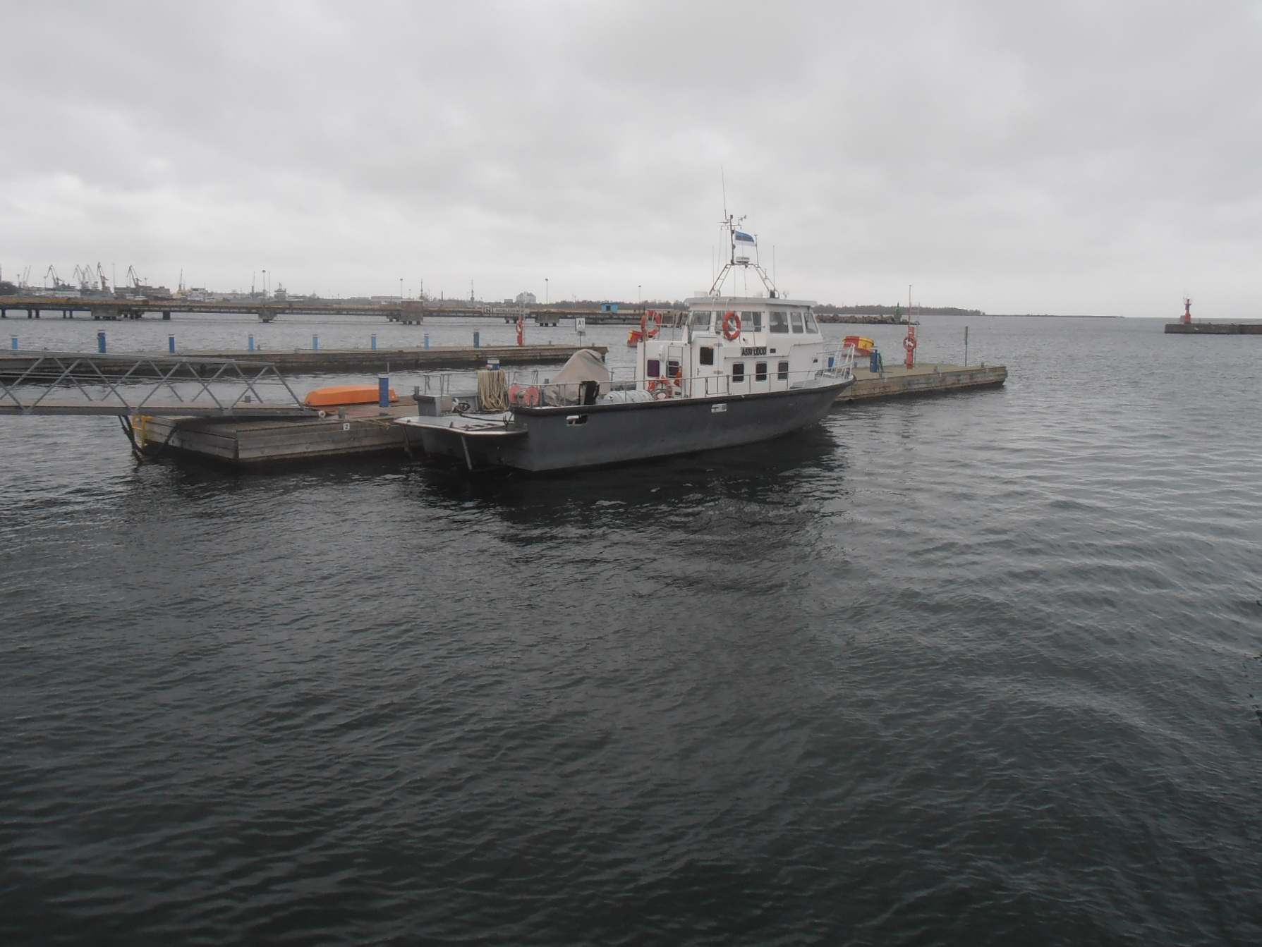 A530 Lood at pier A2 in Lennusadam Tallinn 2 January 2020